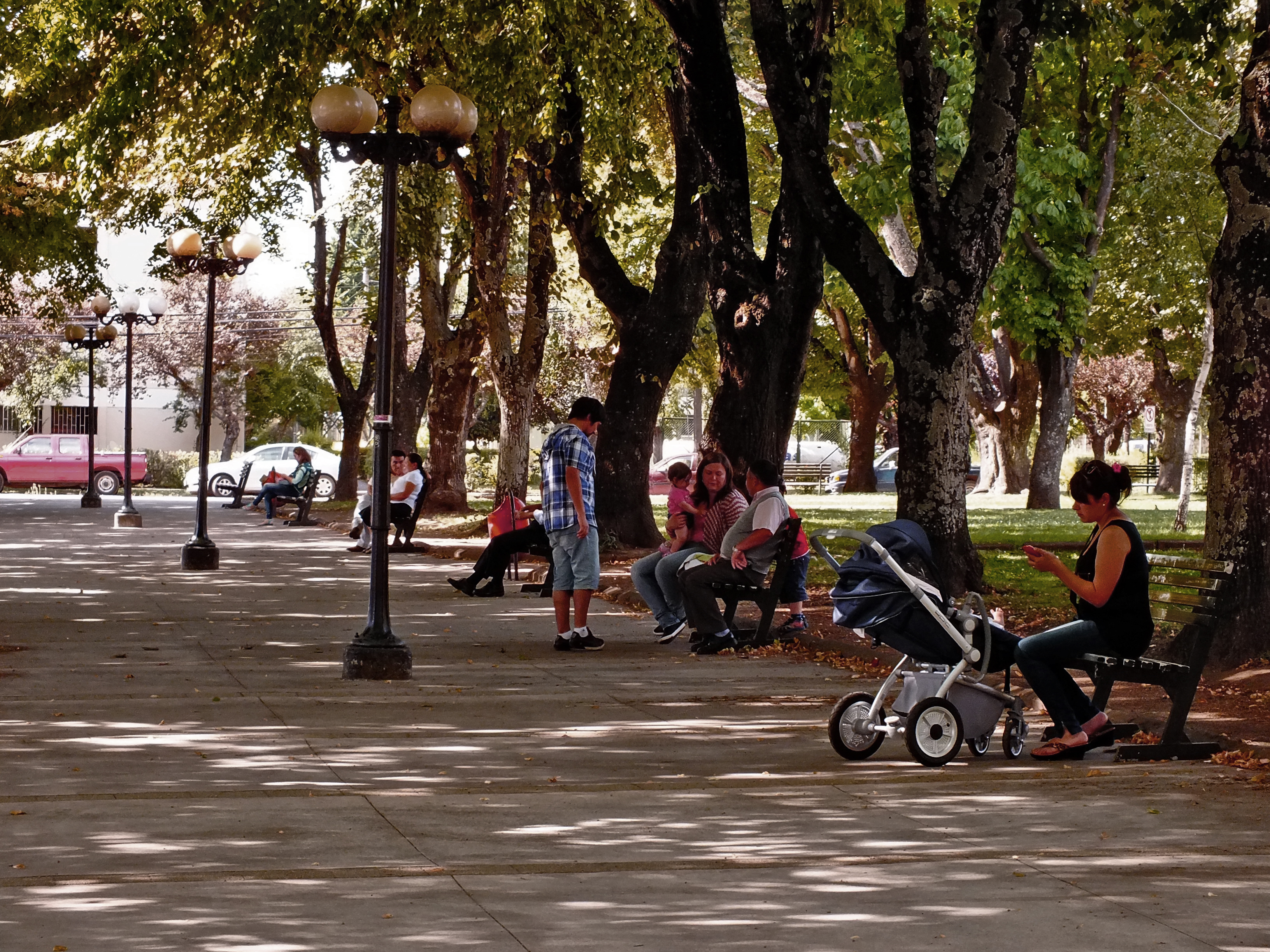 Alrededor de este hermoso pulmón verde, es posible encontrar diversos cafeterías y locales para comer.